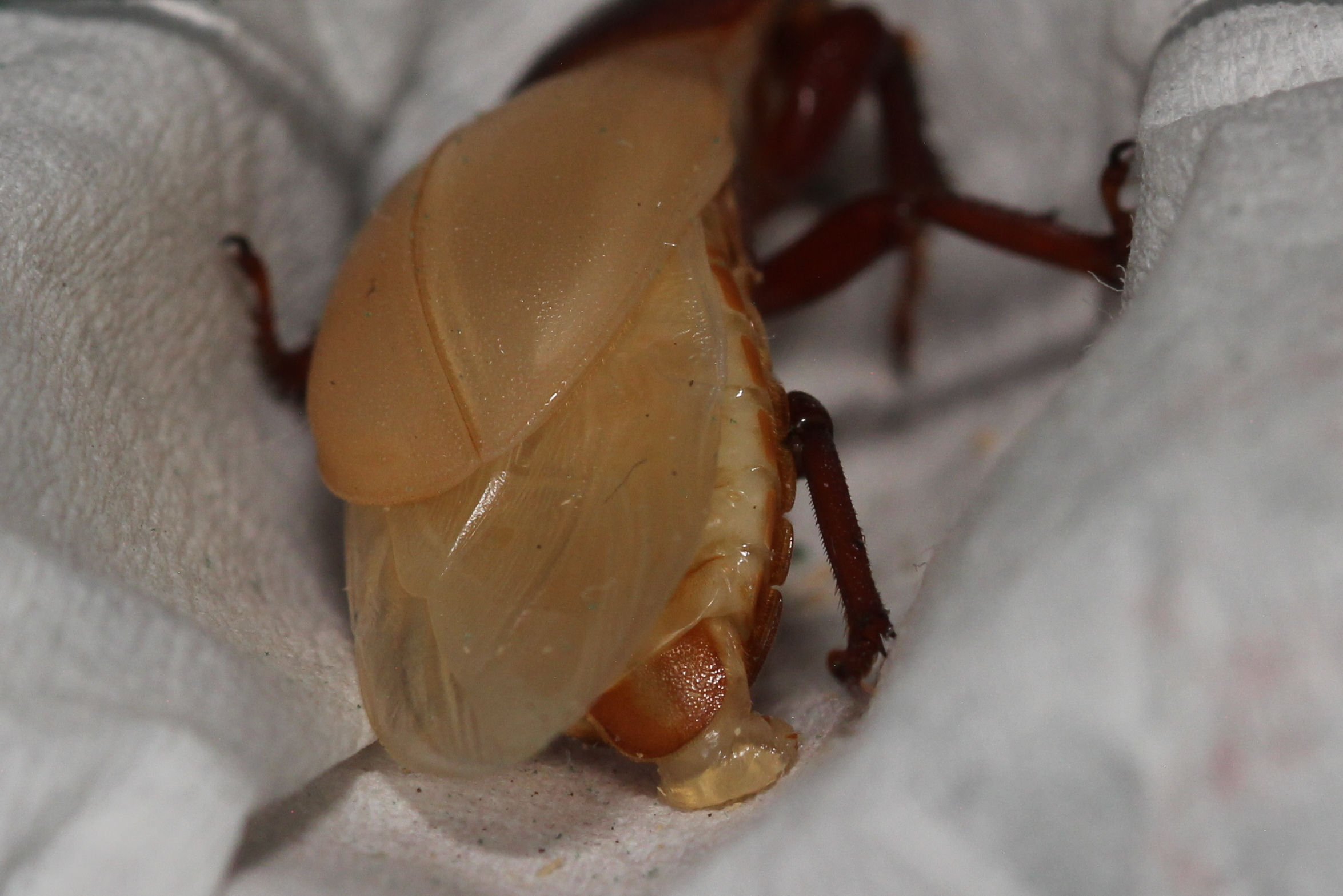 This female was removed from its pupal chamber for observations purposes. The mycangium is the velvety organ touching the paper.